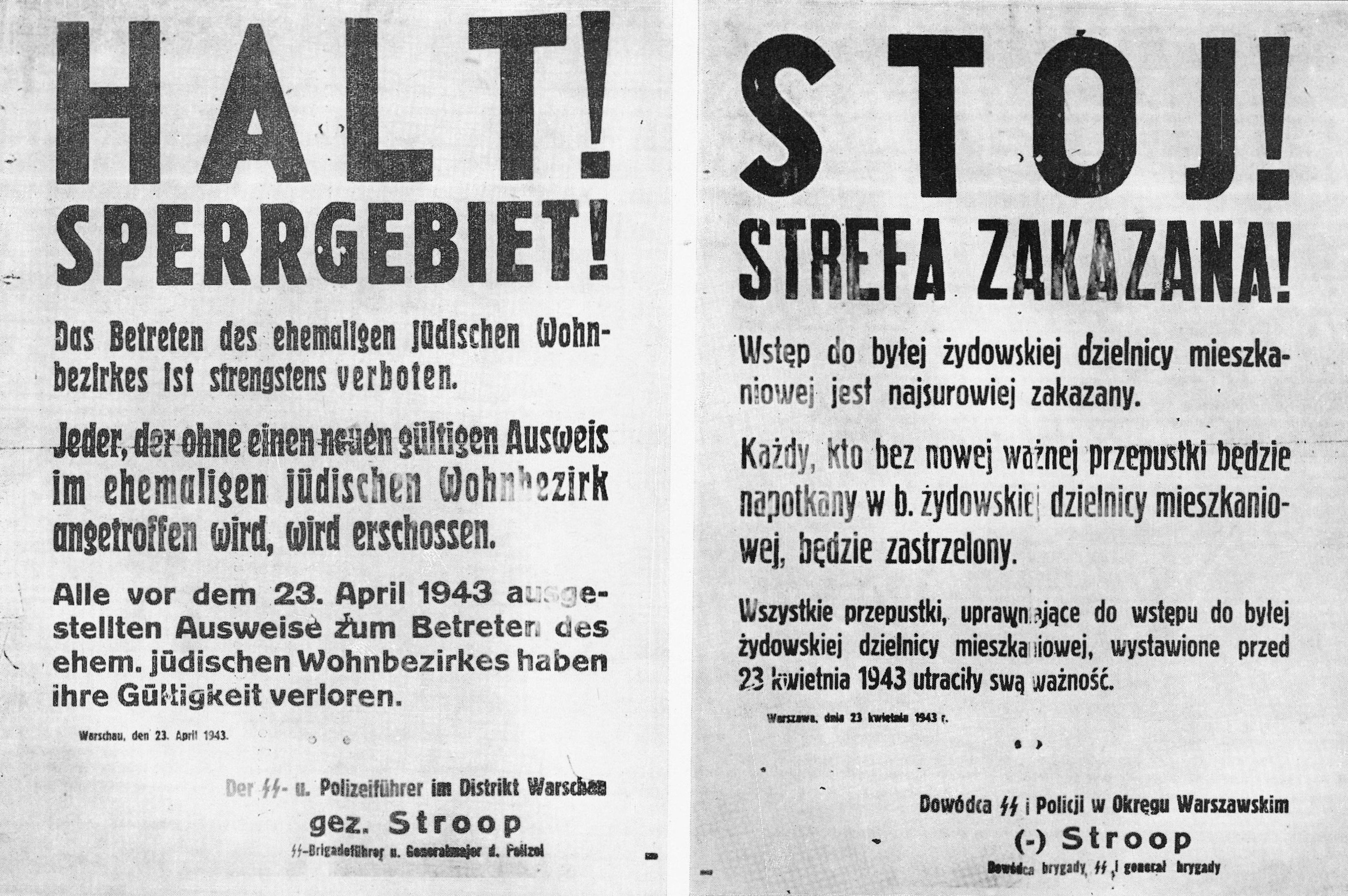 Notice to the Aryan inhabitants of Warsaw issued on April 23rd 1943 by general Jürgen Stroop